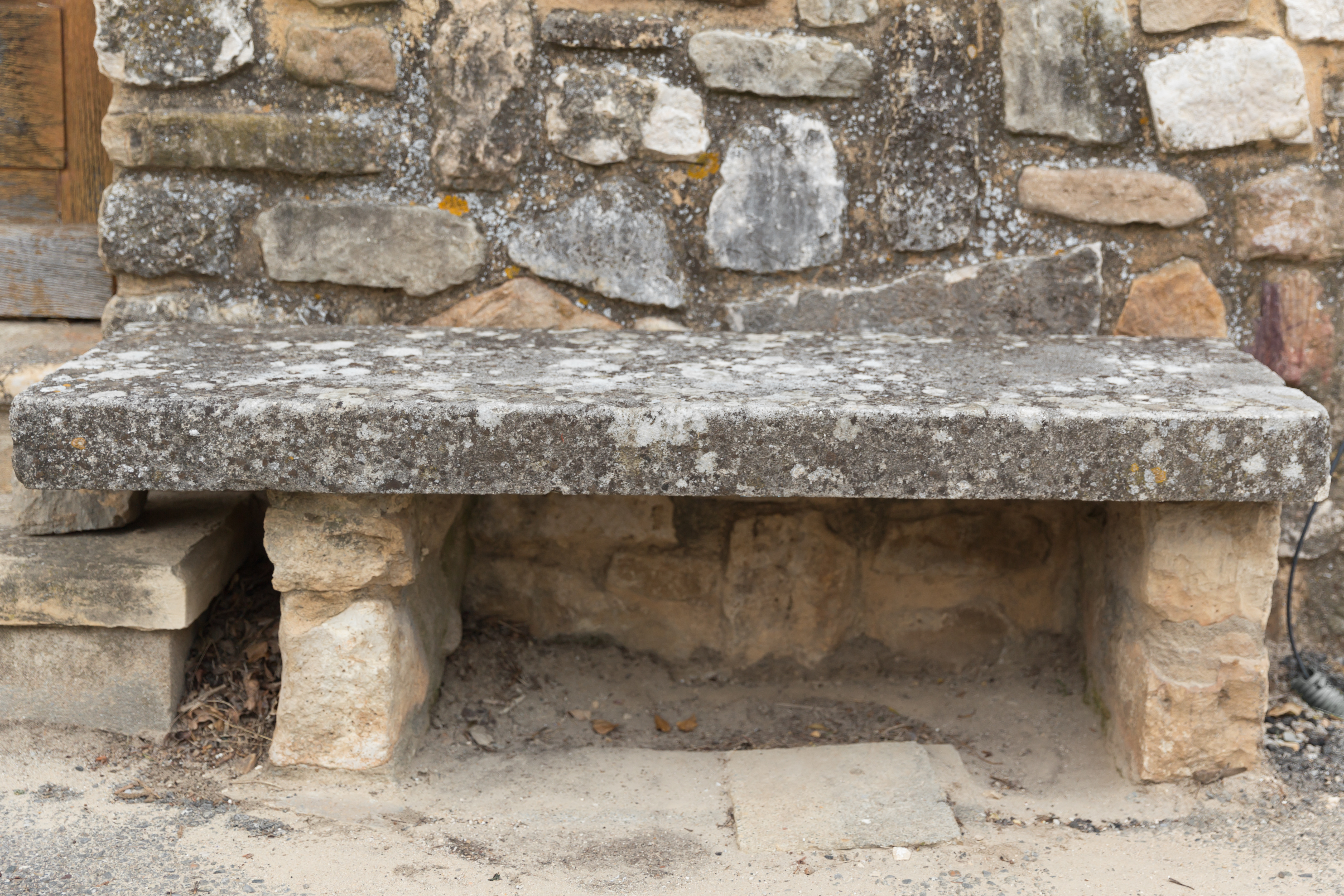 Stone bench in the village of Aiguèze, France.